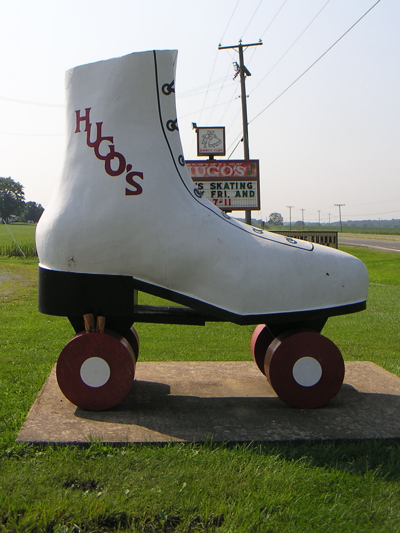 Largest roadside rollerskate - Bealeton, Virginia - Hugo's is no longer a skating rink, but the skate is still there